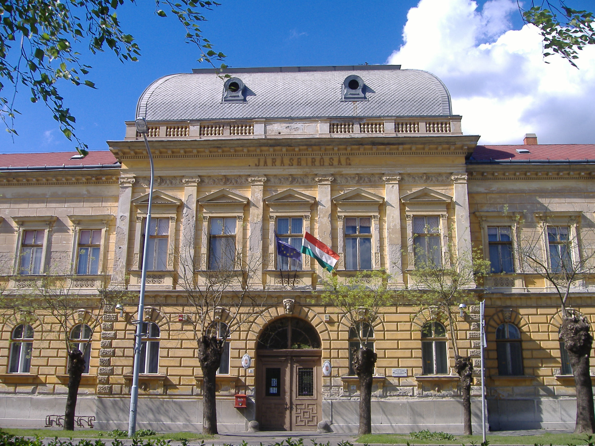 The building of the court in Makó, Hungary